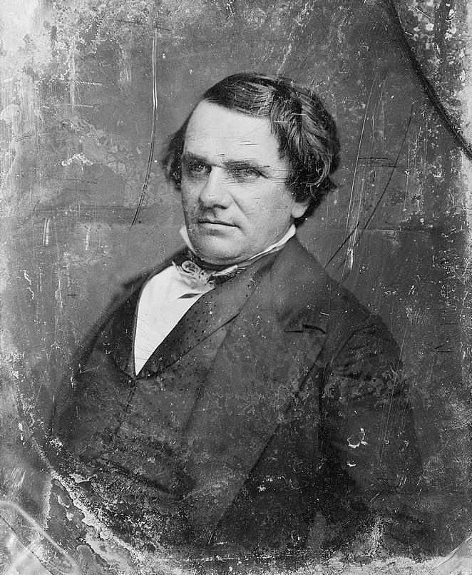 Daguerreotype of Stephen A. Douglas, U.S. Senator from Illinois